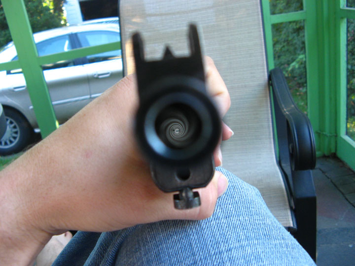 This shows a view looking down the barrel of a Type 99 Arisaka rifle with the bolt removed. You can see the chrome lining of the bore as well as the grooved rifling spiraling downwards.